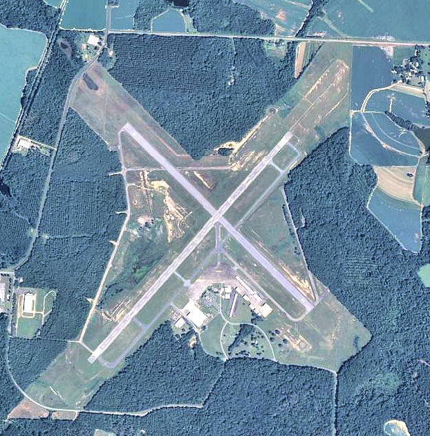 USGS digital orthophoto of Thomasville Regional Airport in the U.S. state of Georgia